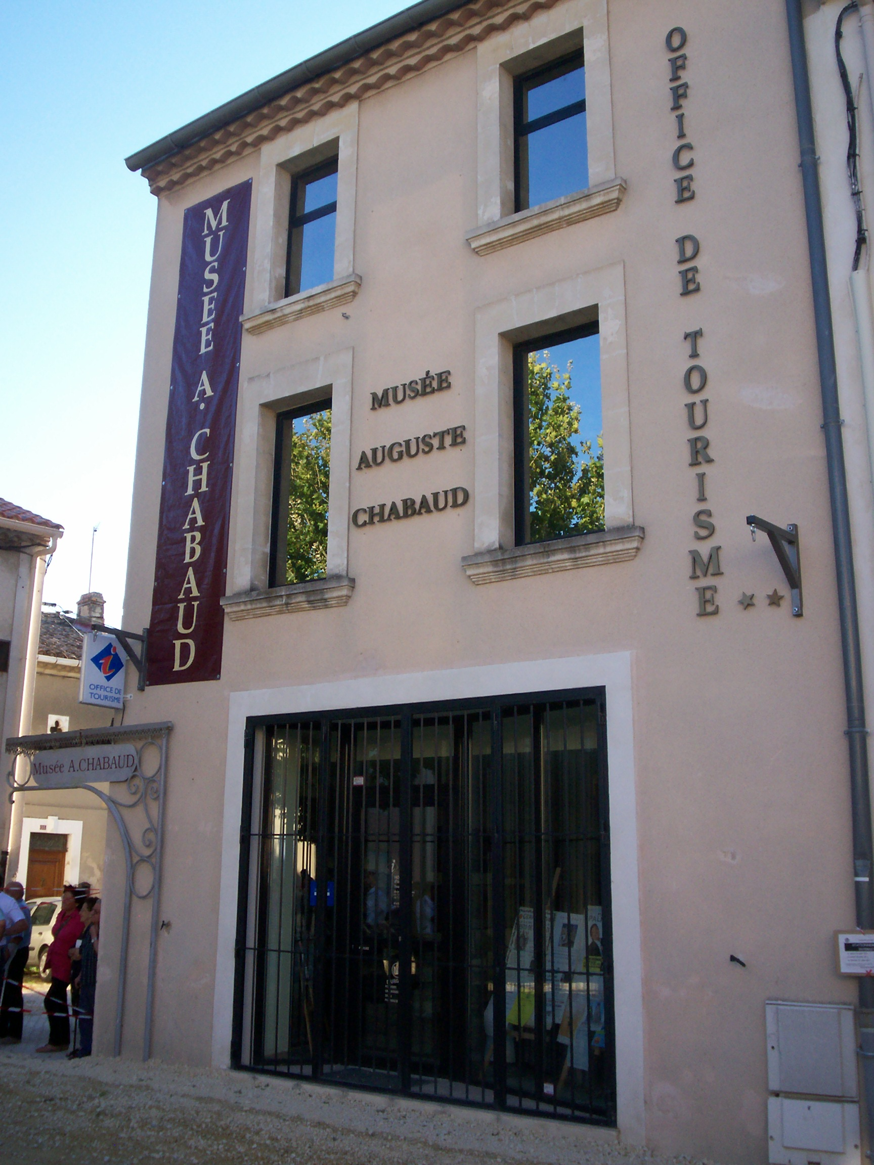 The Chabaud Museum in Graveson